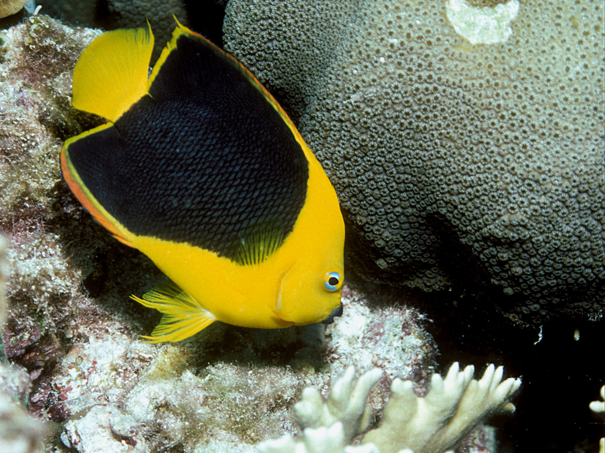 One of the more diminutive angelfish of the Caribbean Sea, this Rock Beauty (Holacanthus tricolor) forages the reef in Bonaire, Netherland Antilles